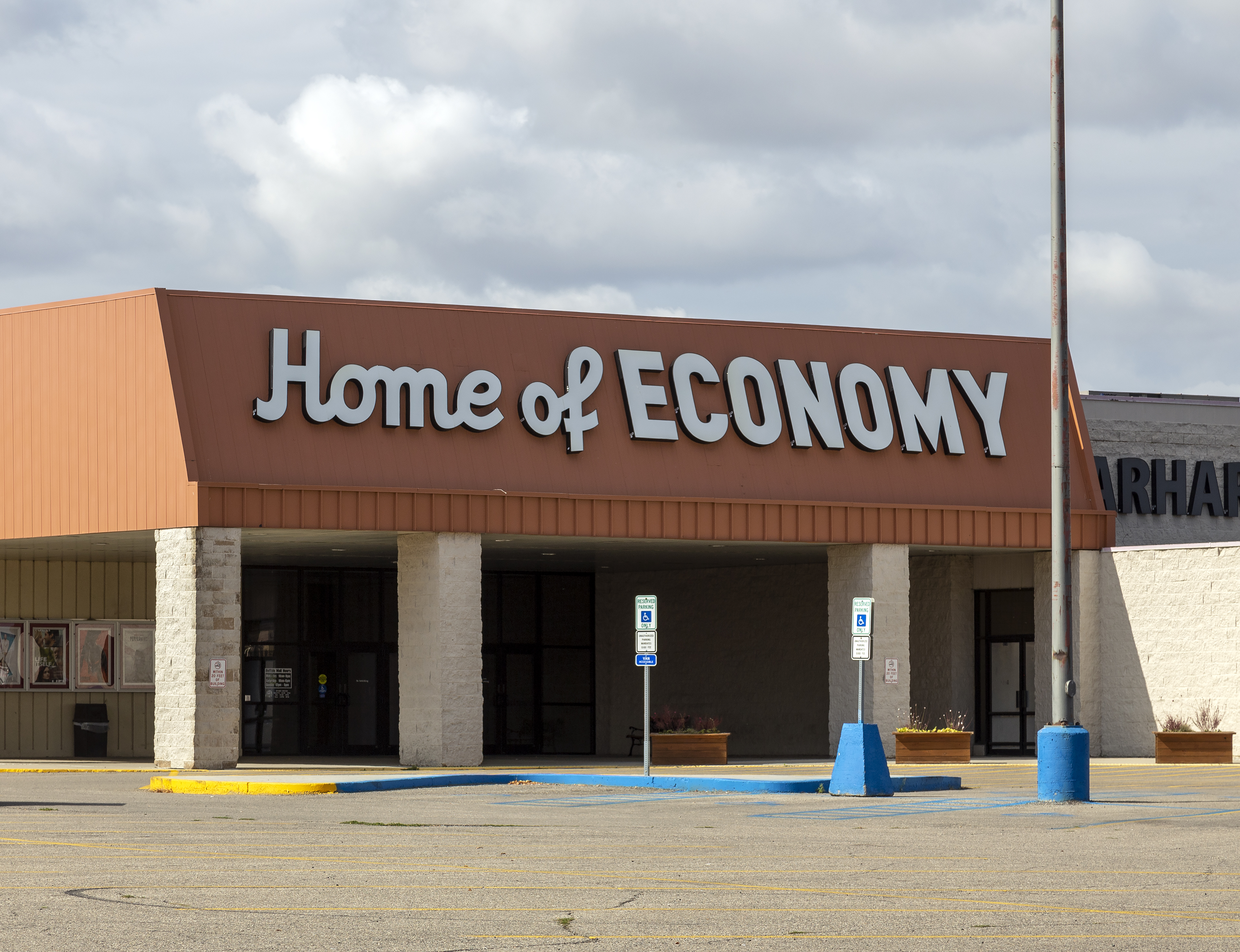 Home of Economy store at Buffalo Mall, Jamestown, North Dakota, USA